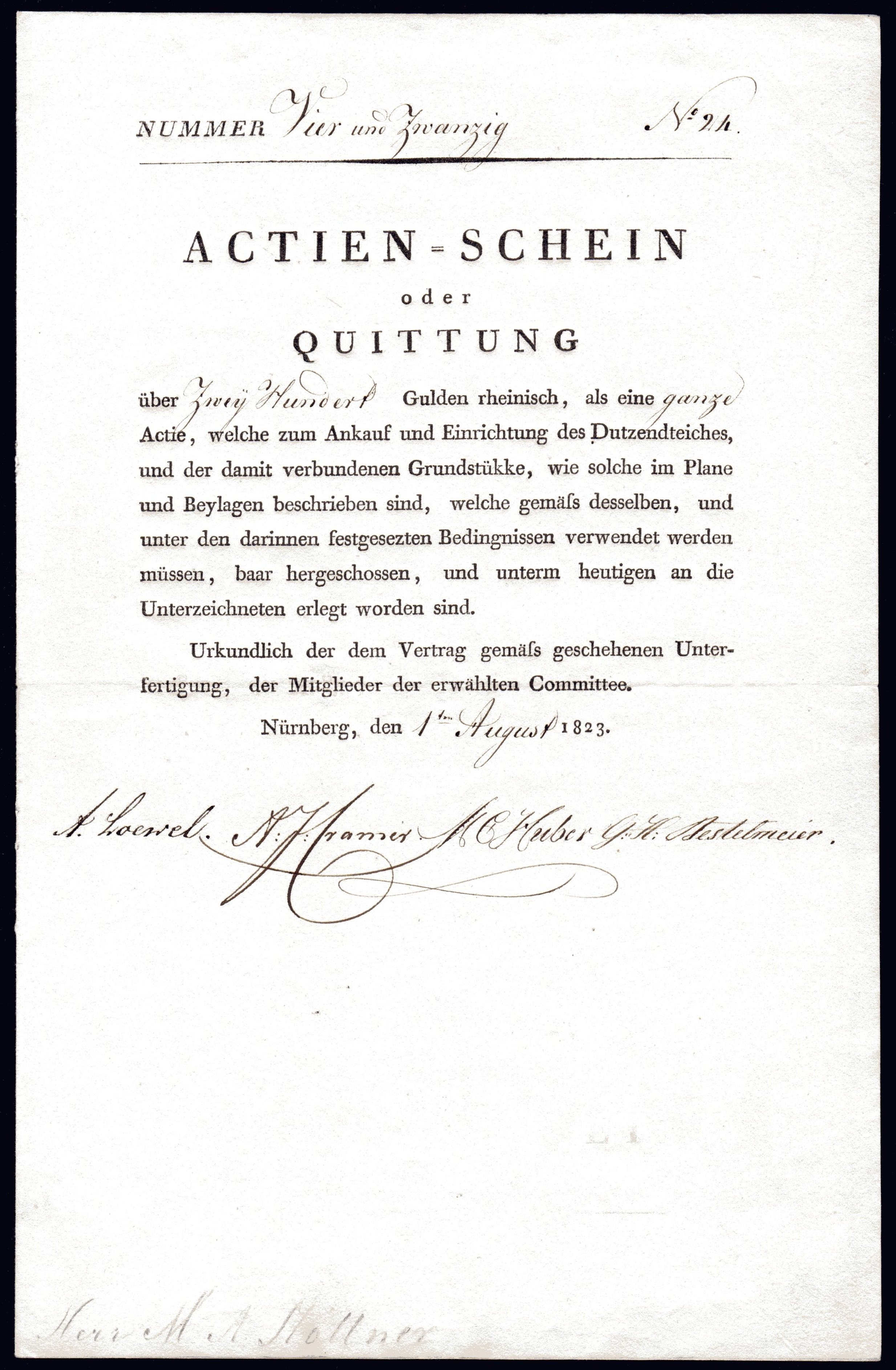 Share of the Dutzendteich-Park-AG, issued 1. August 1823